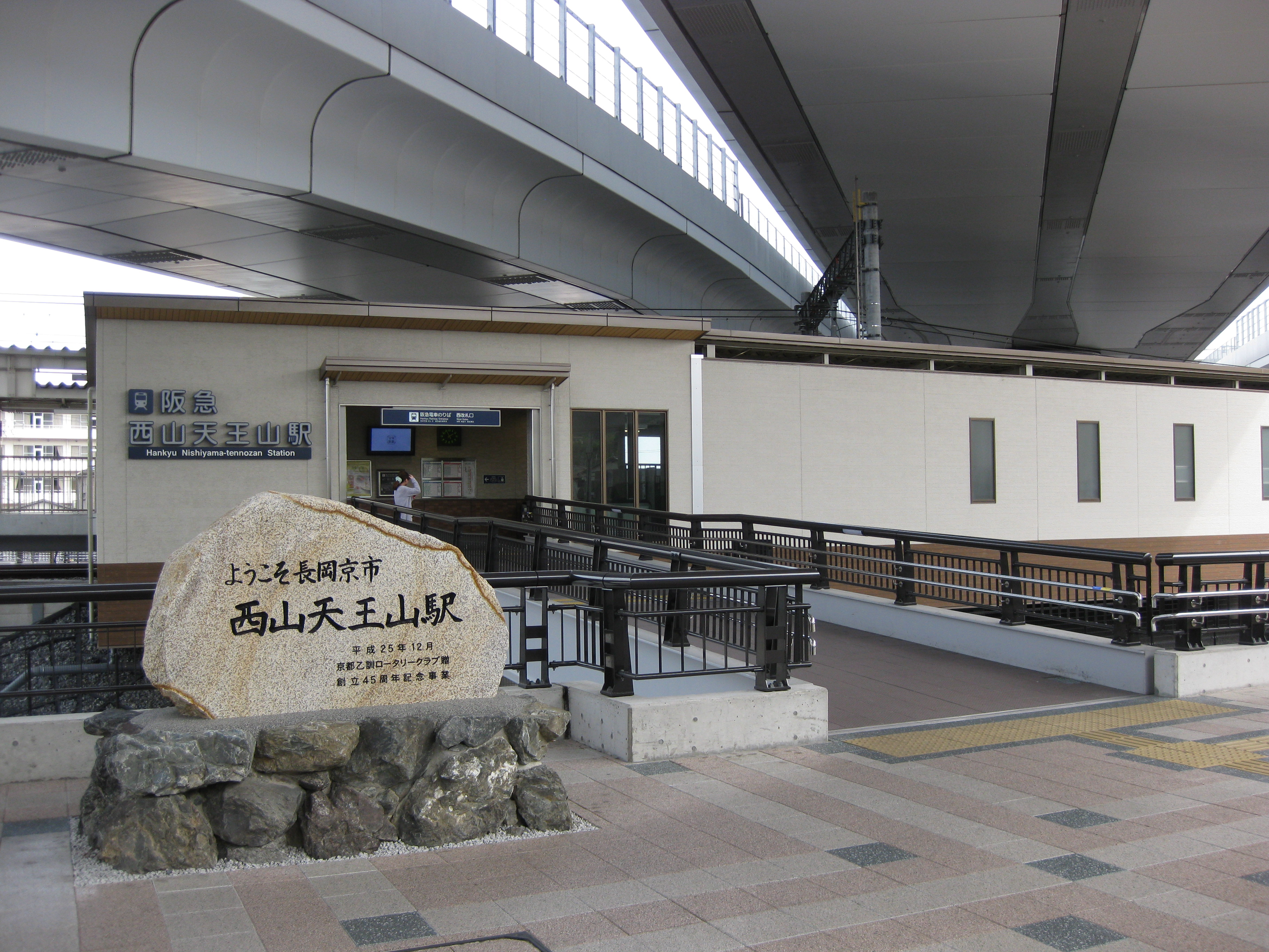 Nishiyama-tennozan Station west side